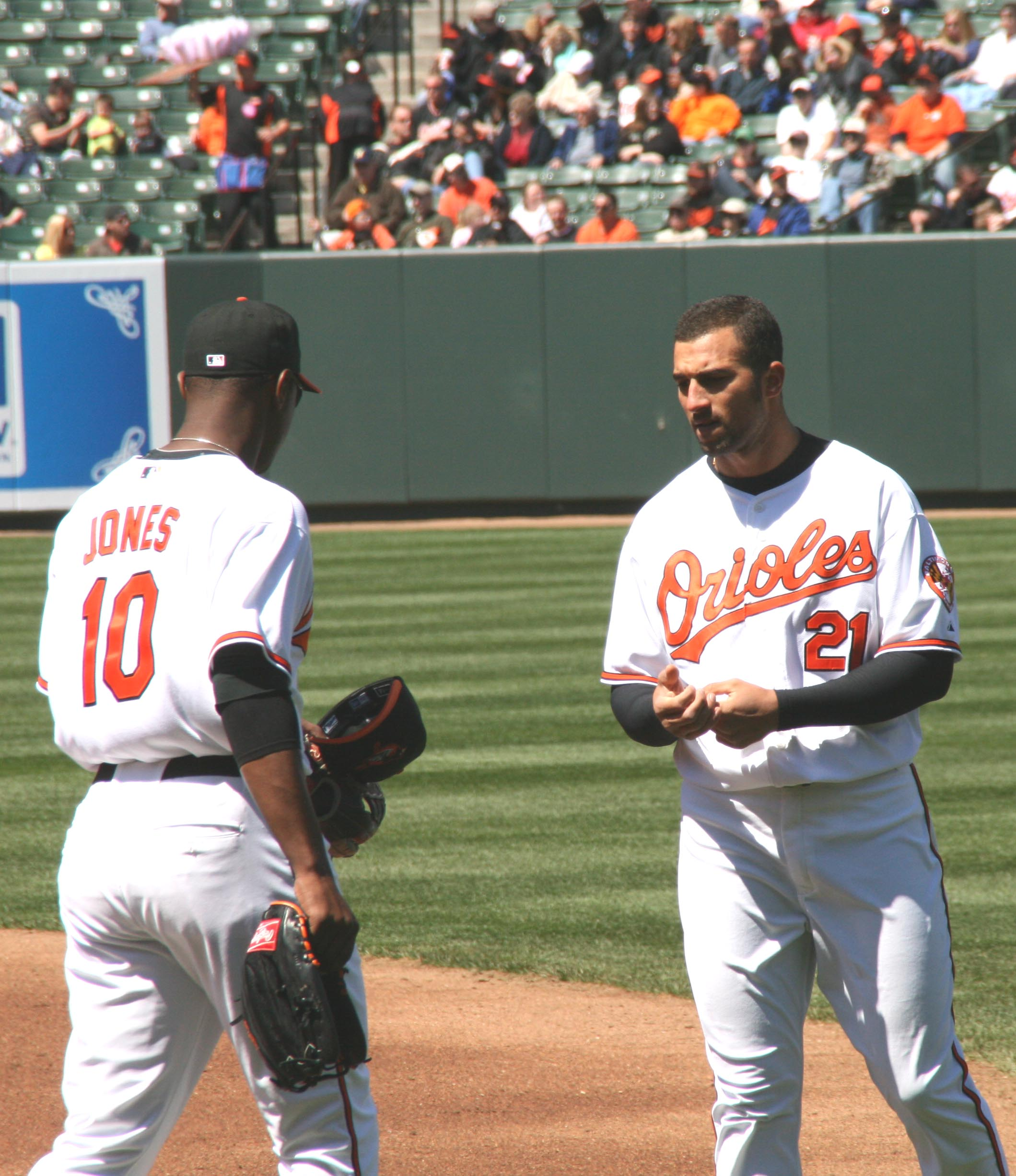 Nick at home